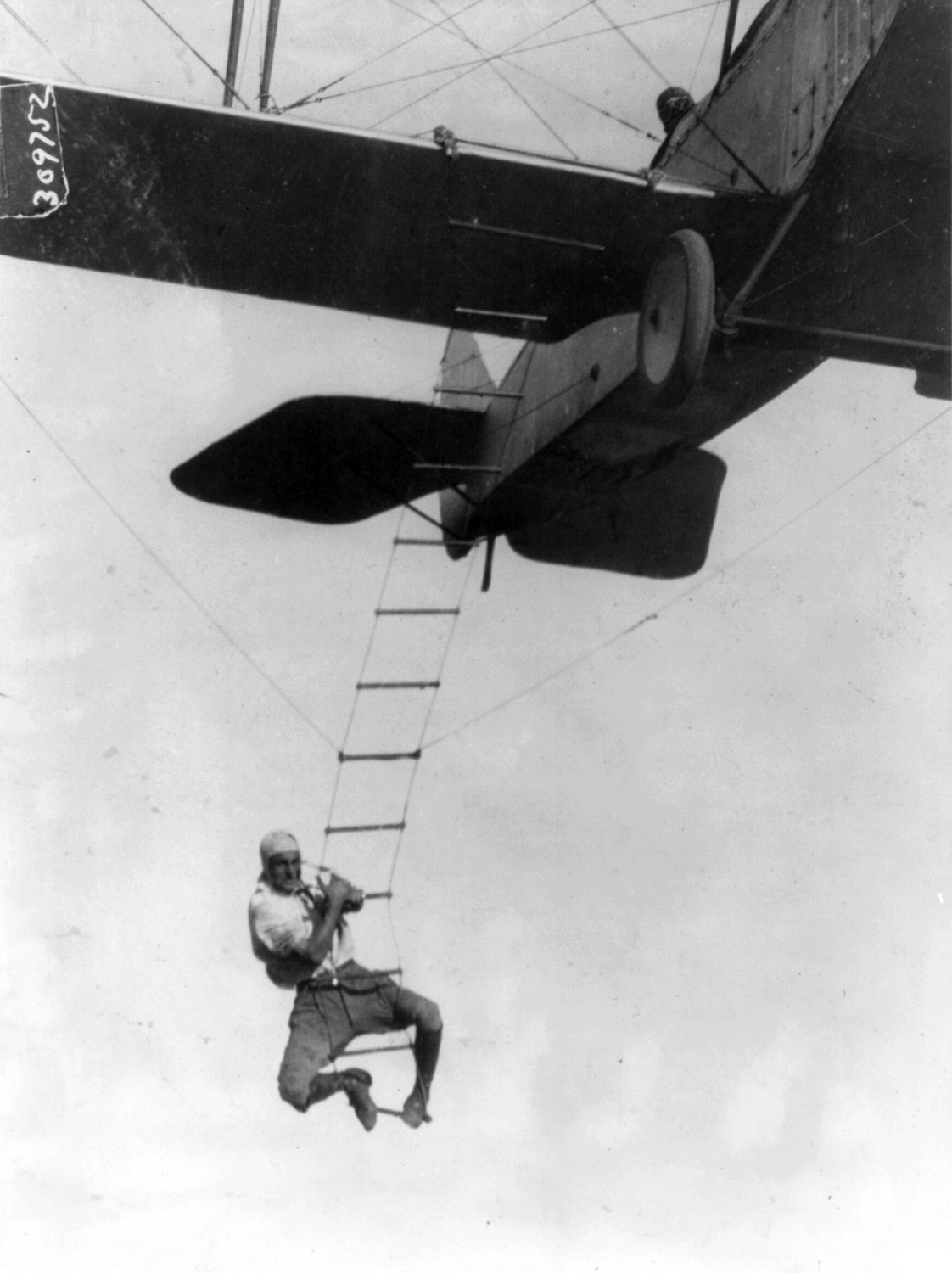 "Fearless Freddie", a Hollywood stunt man, clinging to a rope ladder slung from a plane flown by A.M. Maltrup, about to drop into automobile below (not shown)